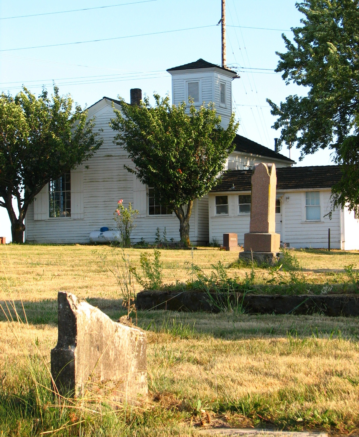 The historic West Union Baptist Church (built ca. 1853) in West Union, Oregon, United States, is listed on the US National Register of Historic Places. Cemetery interments date from approximately the time of the church's construction.